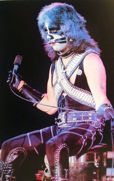 Trade ad for Kiss's Alive II. To better adapt it to his respective Wikipedia article, the ad was cropped and cleaned in a graphics editing program. The original can be viewed at the source below.